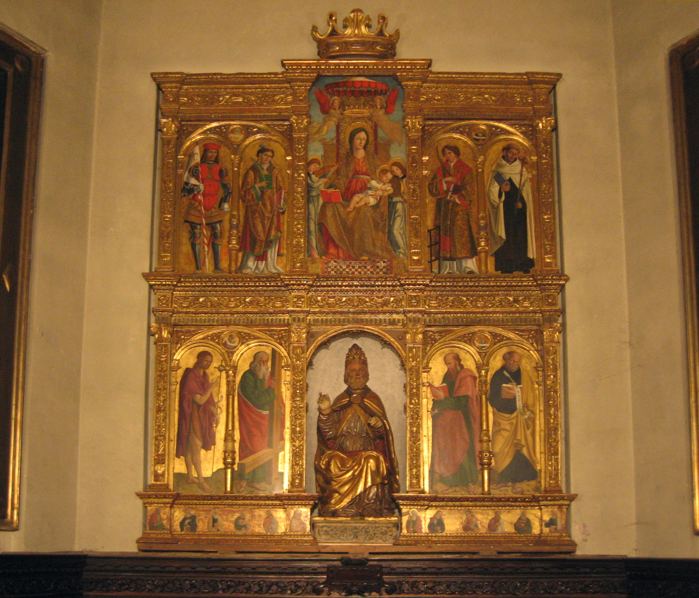 First level - left Saints John the Baptist and Andrew, right Saints Paul and Mark and in the two small rounds the prophets Elijah and IsaacSecond Level - left Saints Alexander and Stephen, the Madonna Enthroned, Saints Lorenzo and Domenico and in the small round the prophets Isaiah and EzekielPredella - The Apostles